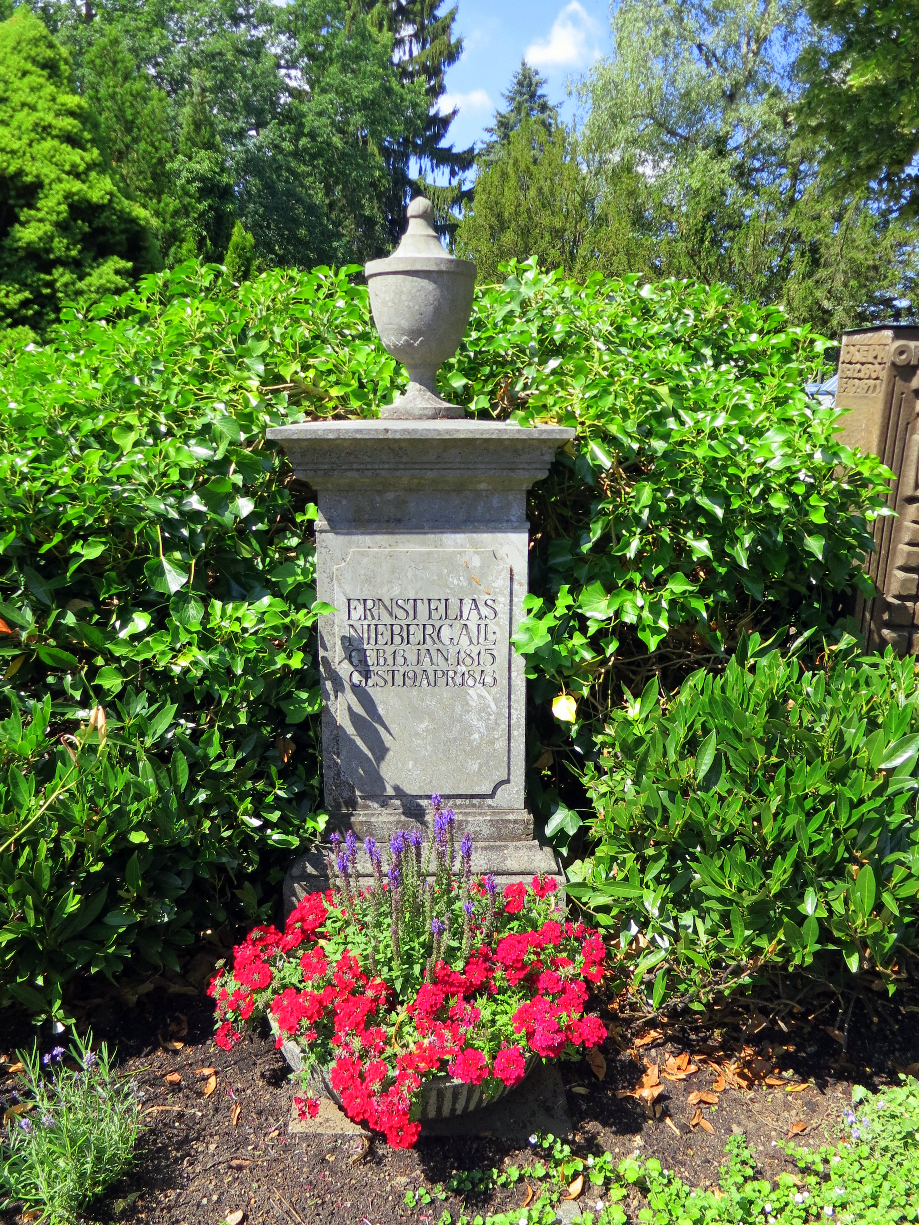 Honorary grave: Ernst Elias Nibergall (Writer)